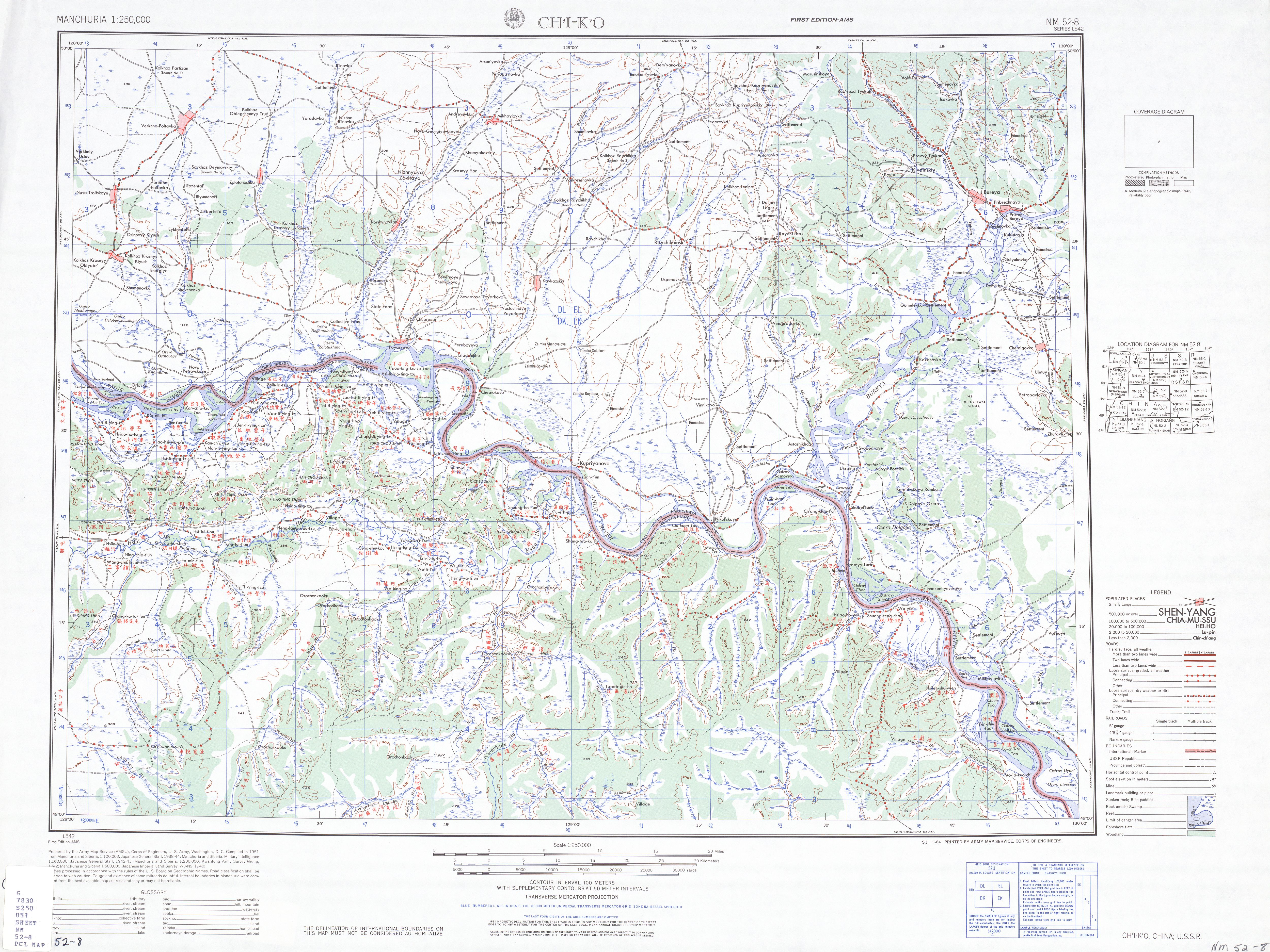 Map of Qike (Ch'i-k'o) area, Heilongjiang